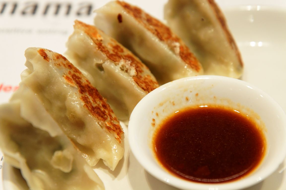 20100130-44-Gyoza at Wagamama in Christchurch